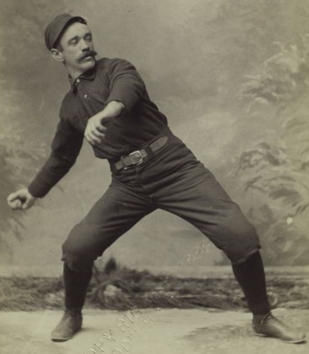 Cabinet Photograph of Jim McGuire